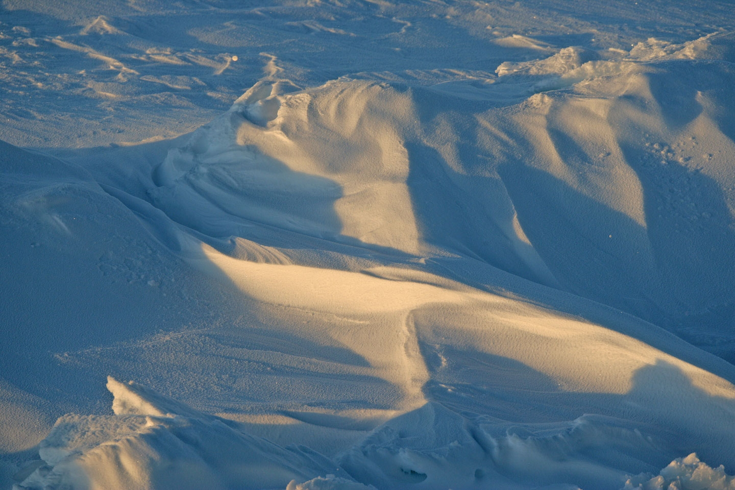 Wind-sculted snow patterns (sastrugi). Arctic Ocean, north of western Russia.